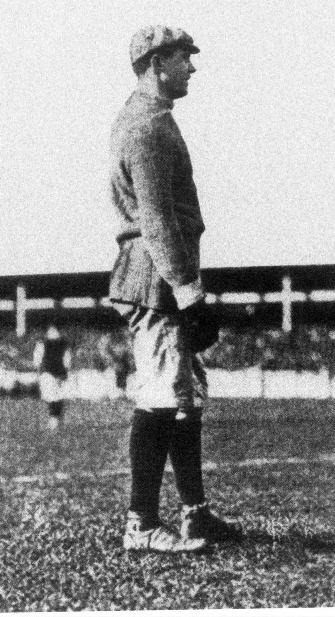 Welsh international Leigh Richmond Roose models a typical goalkeeper's attire.